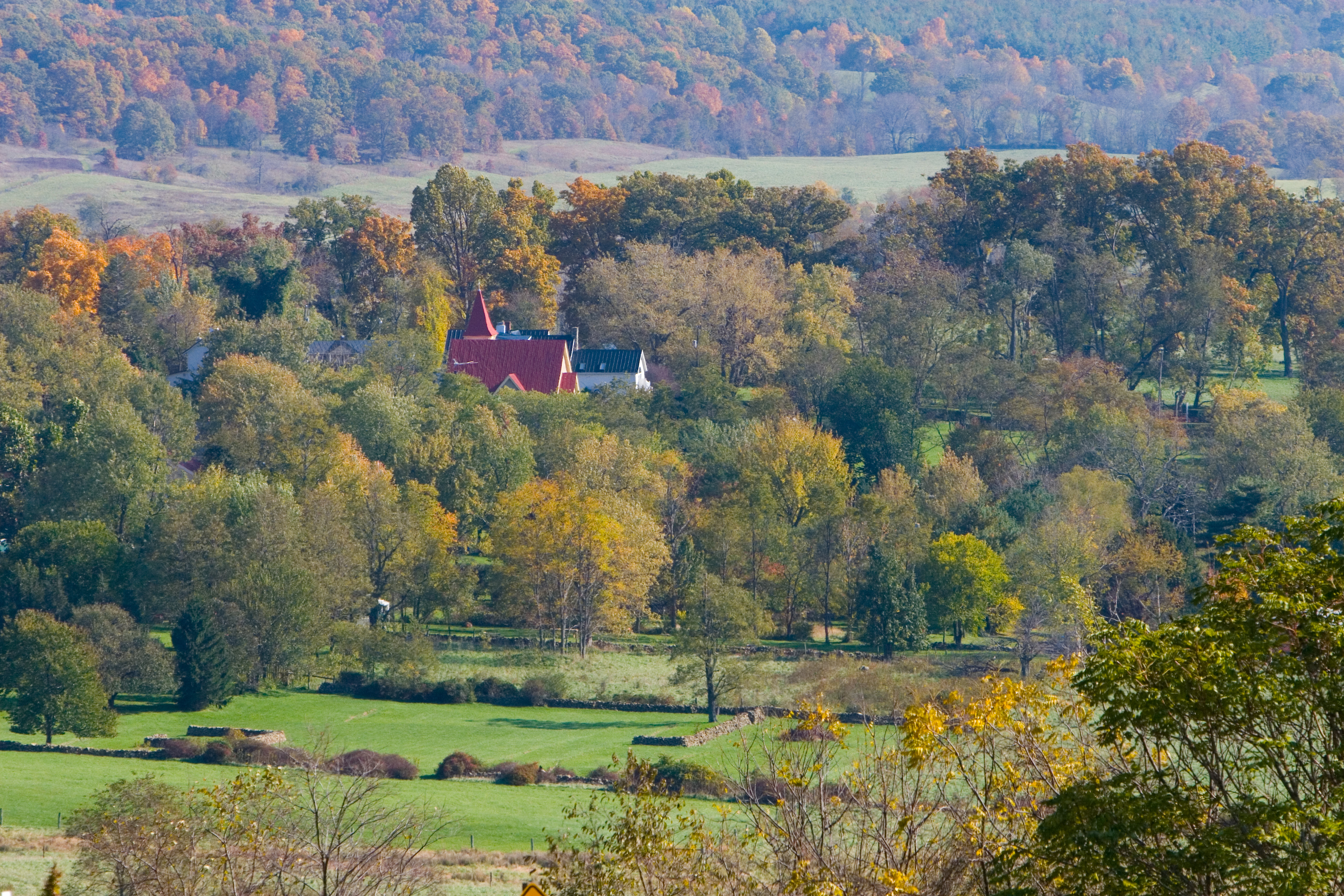 I've never had much interest in landscape photography, but shooting this scene near Delaplane, Virginia may have made me a convert. (This beautiful photo is actually of Paris, Virginia, 7 miles northwest of Delaplane. The red-roofed church is Trinity United Methodist. The black-roofed building behind and to the right of the church is Ashby Inn. Looking to the southeast. --Kenatipo (talk) 15:25, 4 September 2011 (UTC))